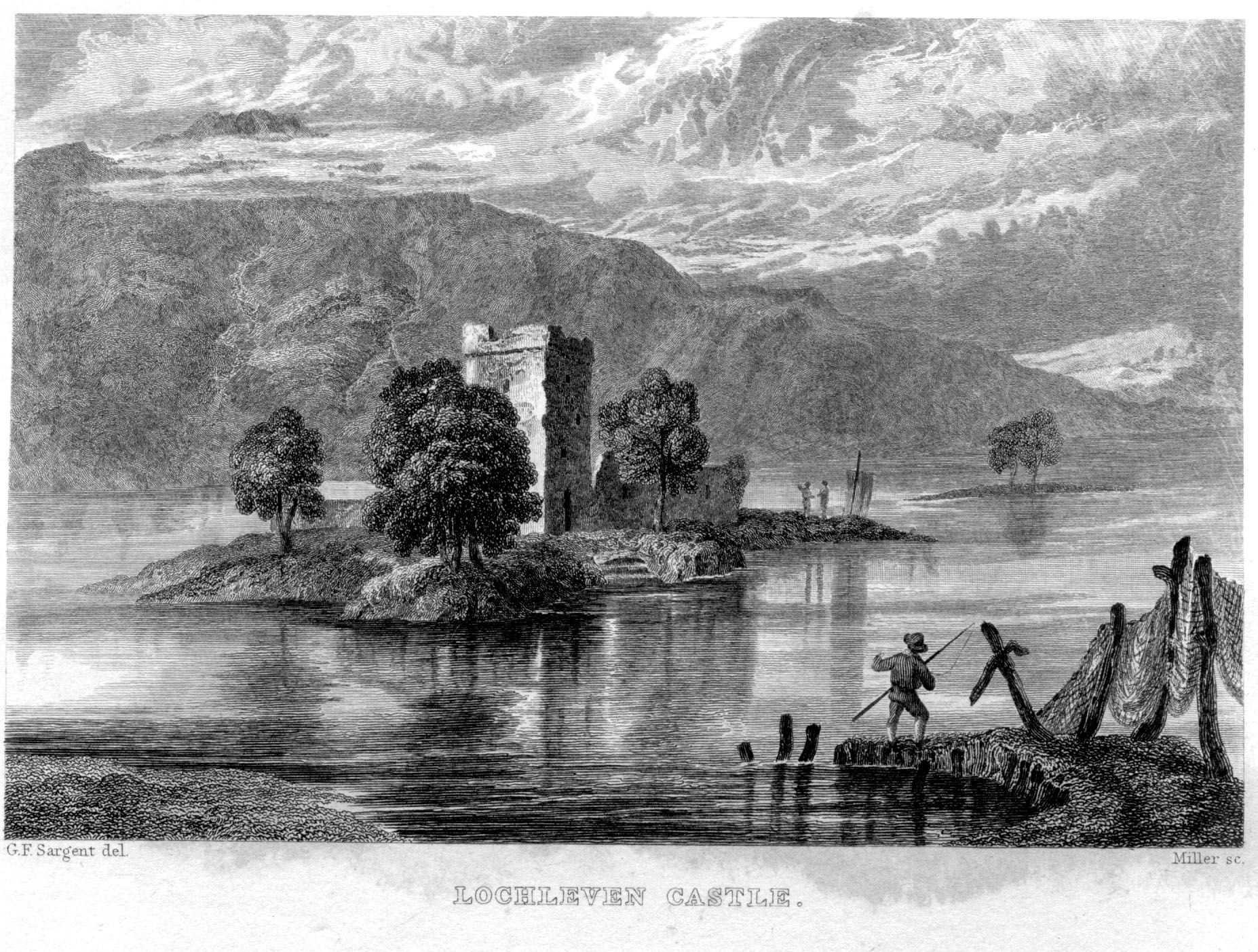 Lochleven Castle engraving by William Miller after G F Sargent (Miller paid £10-10-0 in xi 1831 for engraving), published in The Castles, Palaces and Prisons of Mary of Scotland. Charles Mackie. London. C Cox, 12, King William St, Strand, Oliver & Boyd Edinburgh, David Robertson, Bookseller to the Queen Glasgow, James Chalmers Dundee, & J Robertson Dublin. 1849